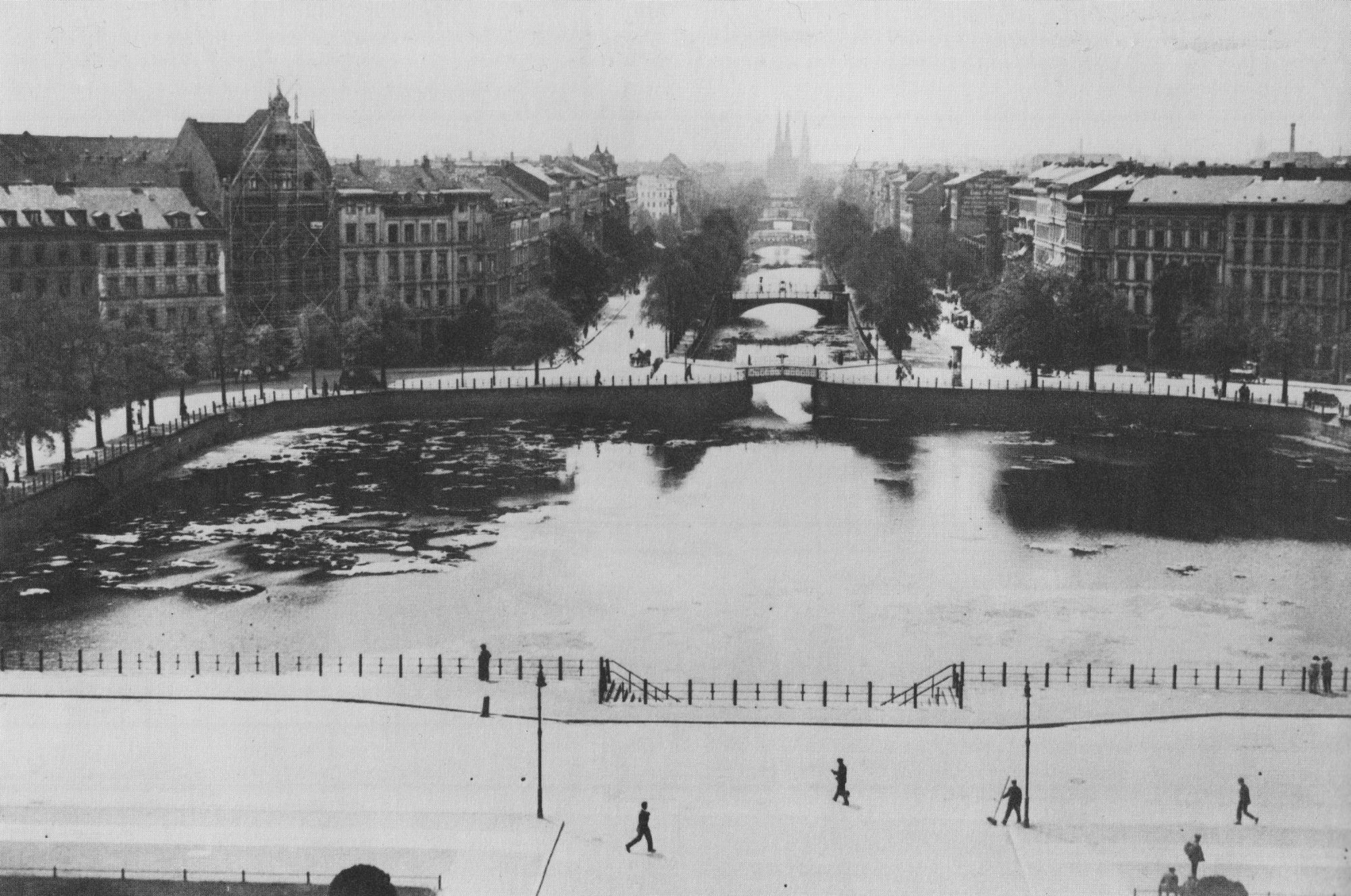 Luisenstädtischer Kanal and Engelbecken, Berlin, around 1900, view towards the silhouettes of the towers of the old Melanchthon Church and of the New Garrison Church (today's Church at Südstern).